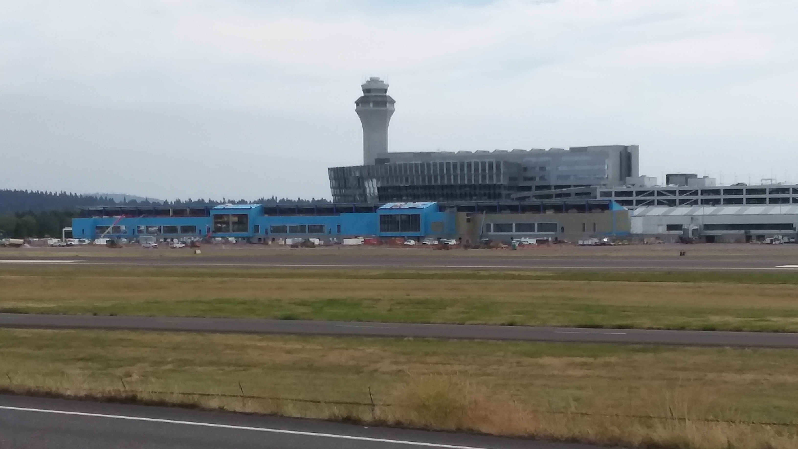 Concourse E extension construction underway at PDX in August 2019.